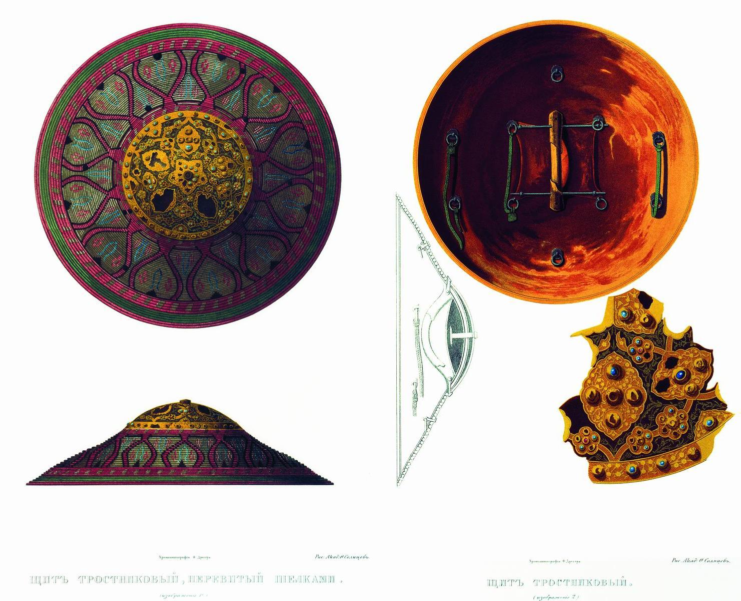 Shield "Kalkan".